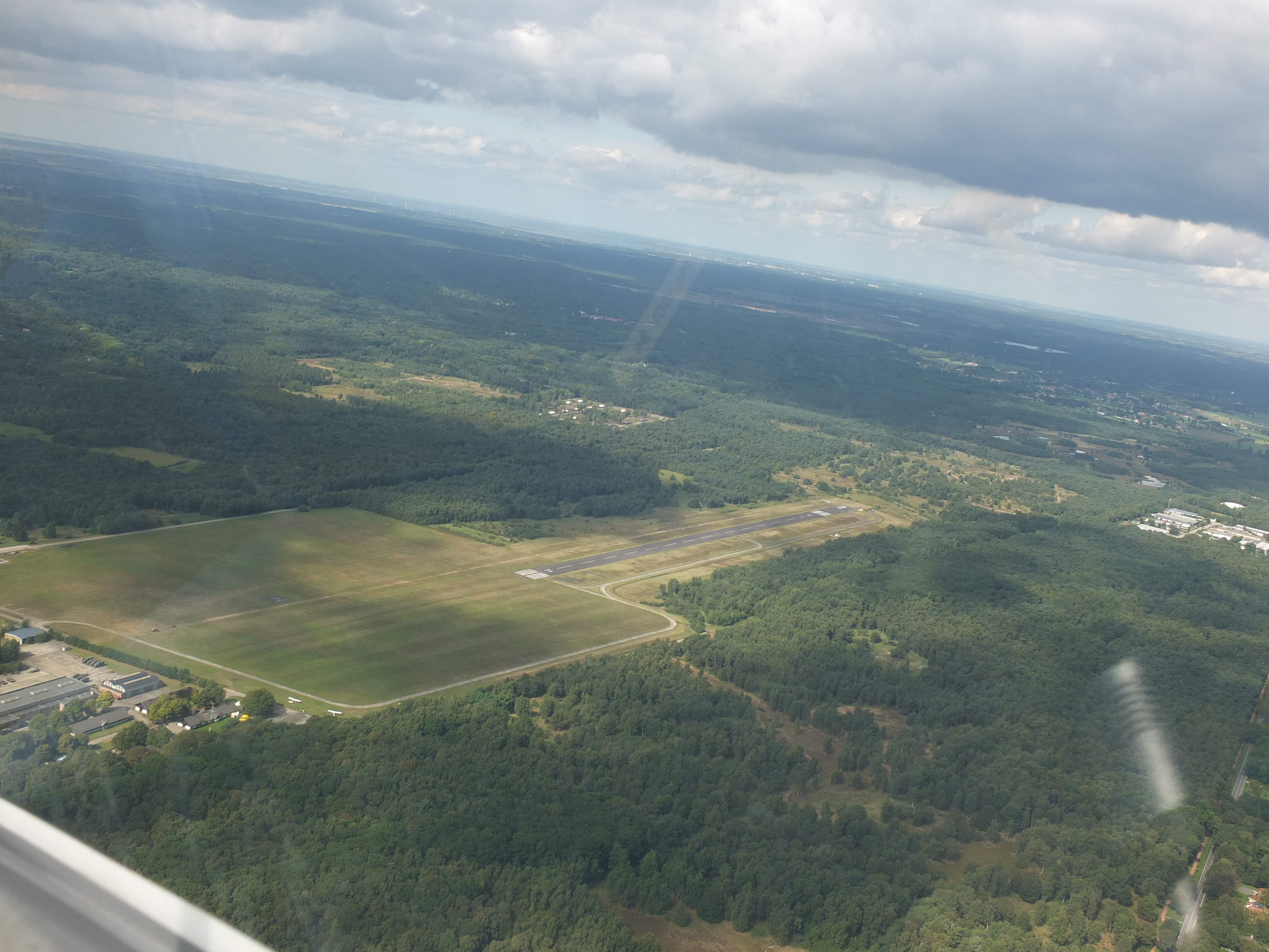 Brasschaat Airfield (EBBT) as seen from a glider.